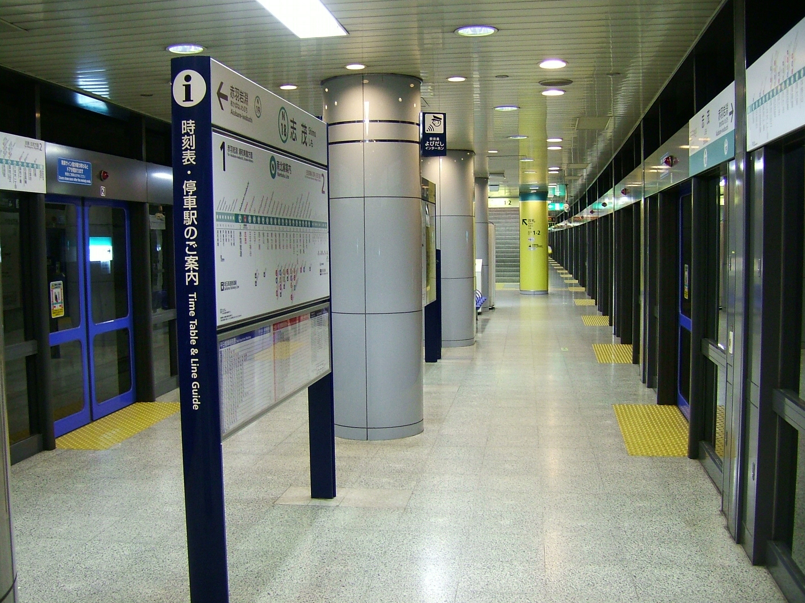 The platform at Shimo Station on the Tokyo Metro Namboku Line in Kita city, Tokyo, Japan